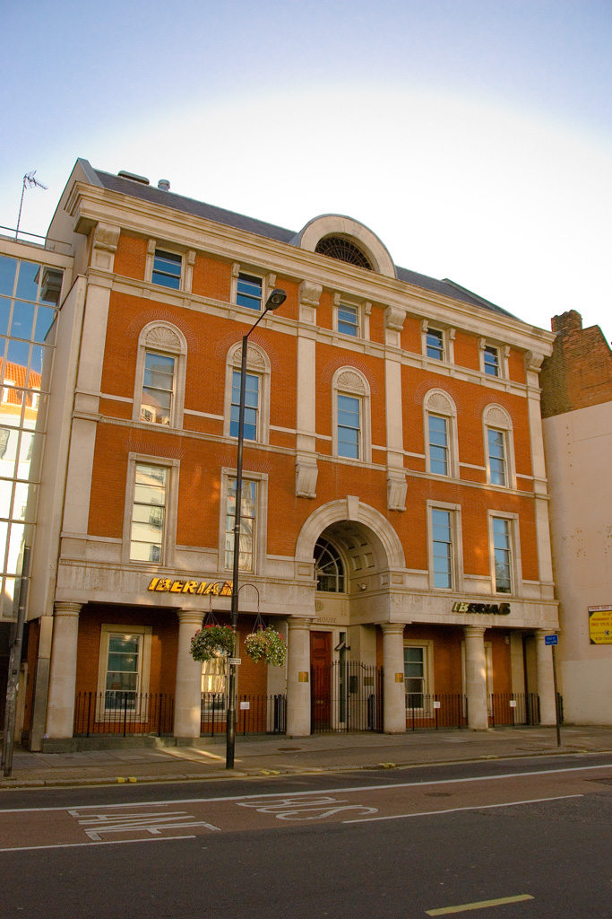 Iberia House, offices of Iberia in the London Borough of Hammersmith and Fulham - 10 Hammersmith Broadway London W6 7AL